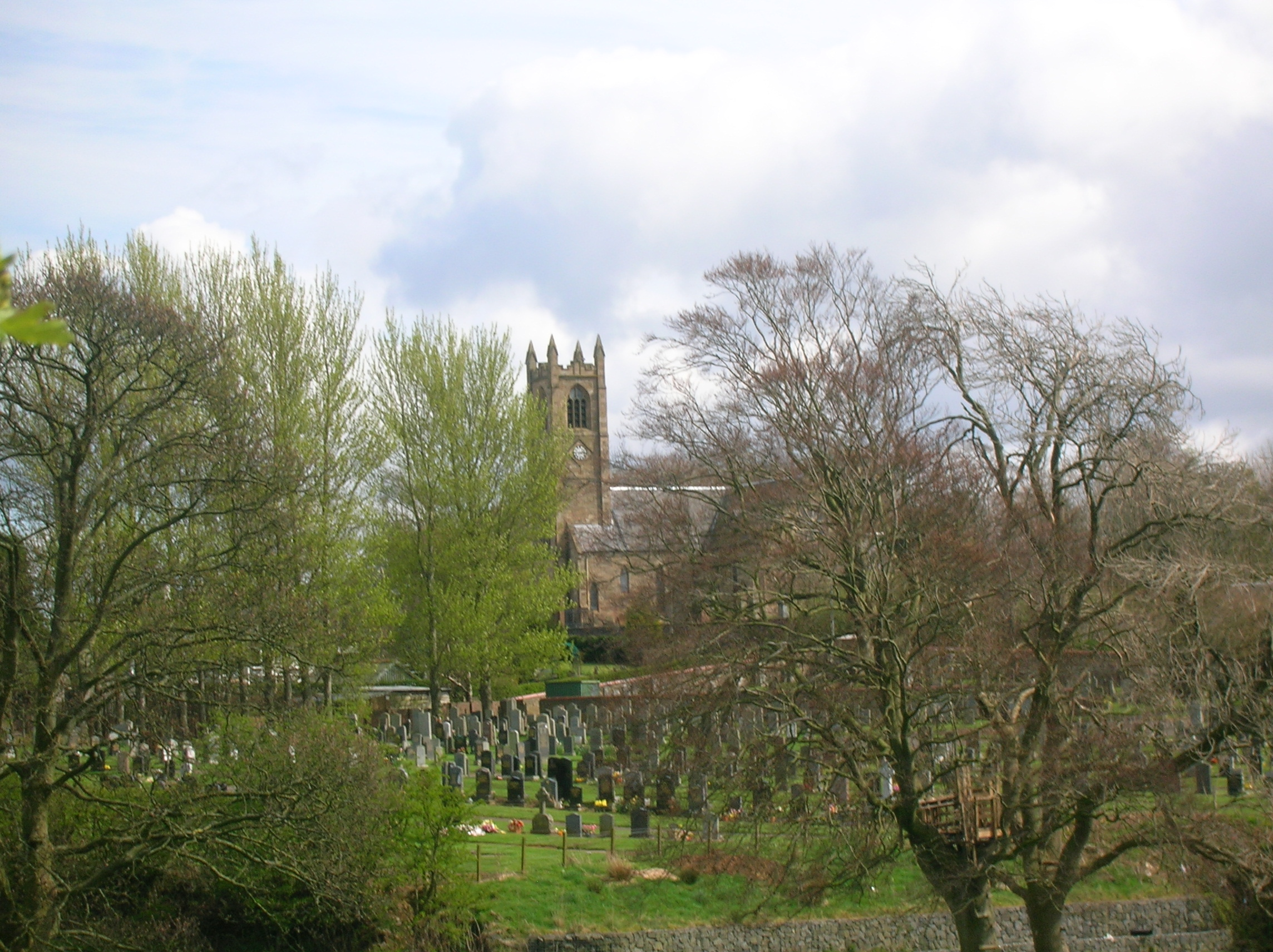 St Maurs Glencairn kirk in Kilmaurs, East Ayrshire, Scotland. 2007.